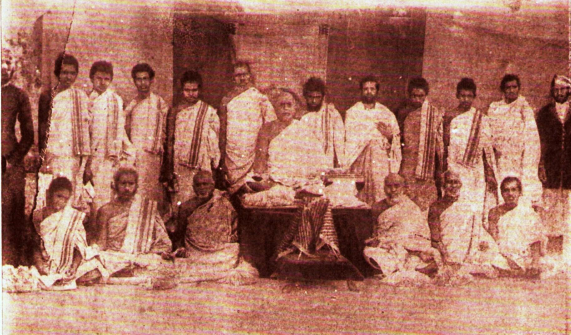 Jain monk Vijayanandsuri aka Atmaram with his disciples in Ajmer in Hindu calendar year 1946